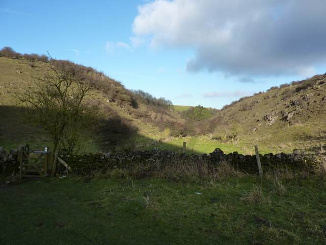 Gratton Dale / Long Dale junction Go through the gate and straight ahead, you are now walking north towards Dale End, near Elton. You will shortly experience one of the muddiest walks of your life. The cows who live in Gratton Dale have excelled themselves, churning the soggy ground into a glutinous quagmire. Or you could do what we did today and turn left, through Long Dale. Your Choice !